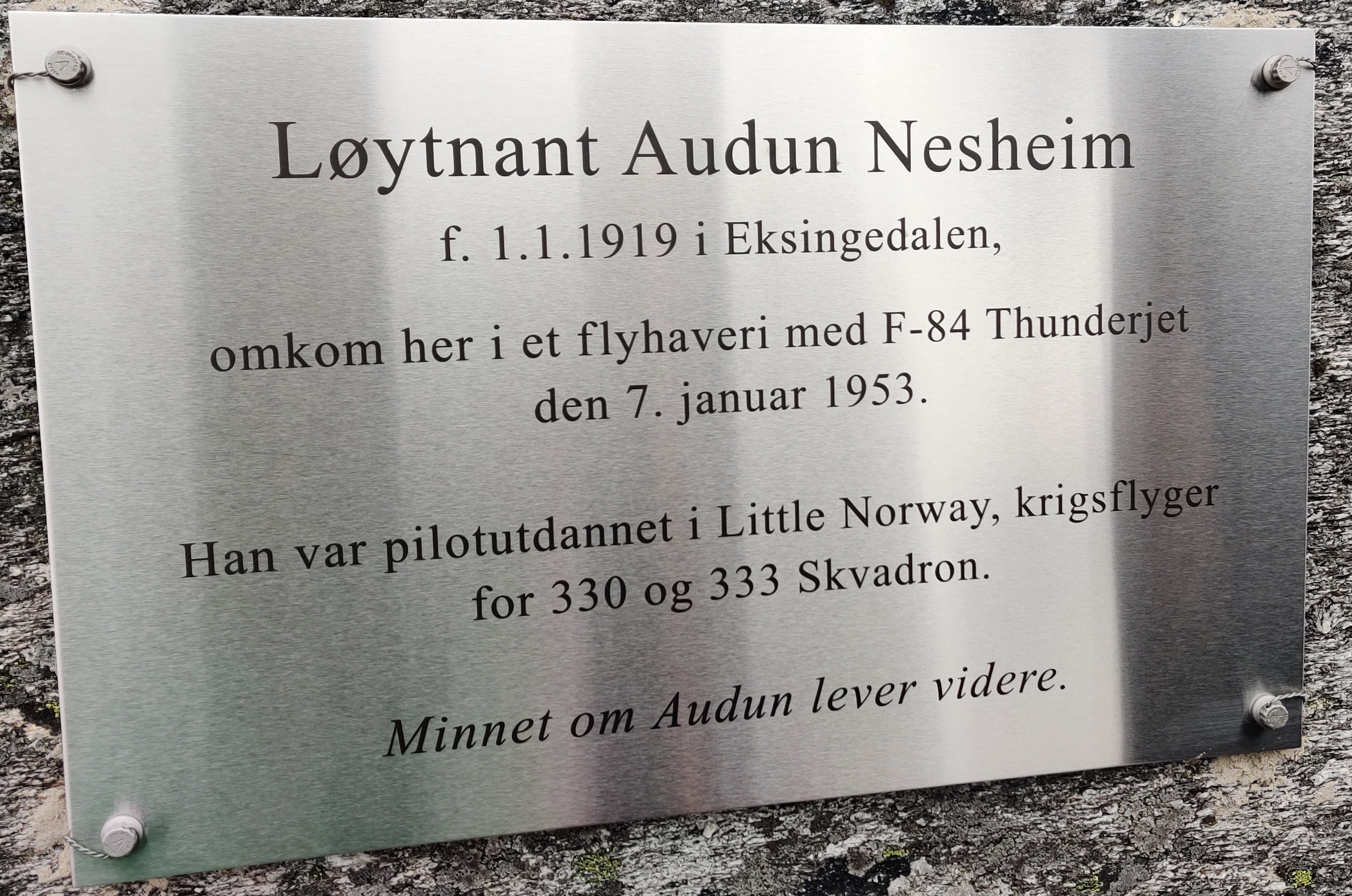 Memory plaque for Lt Audun Nesheim, killed in crash with fighter-jet. At crash-site